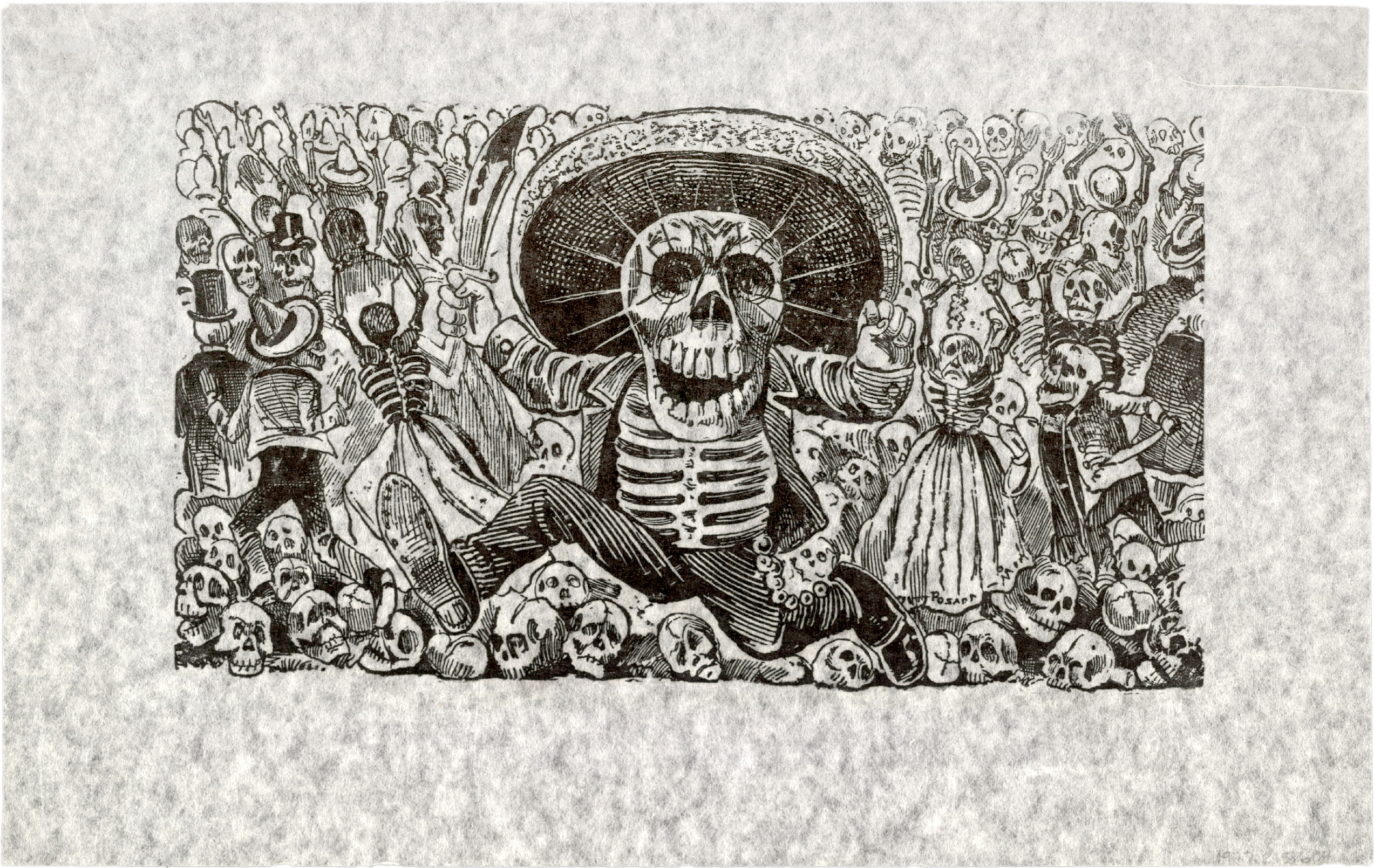 Calavera Oaxaqueña by José_Guadalupe_Posada. Print shows fierce calavera brandishing knife, crowd of calaveras behind him.